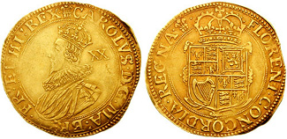 House of Stuart. Charles I of England. 1625-1649. AV Unite (8.91 gm). Group B. Tower mint, mm: plume, 1630-1631. Second crowned bust left Crowned and garnished arms; mm: plume. Brooker 61; North 2149; SCBC 2690A. VF, light coppery toning.